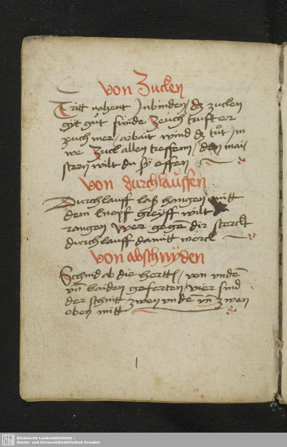 Extract of Mscr.Dresd.C.487